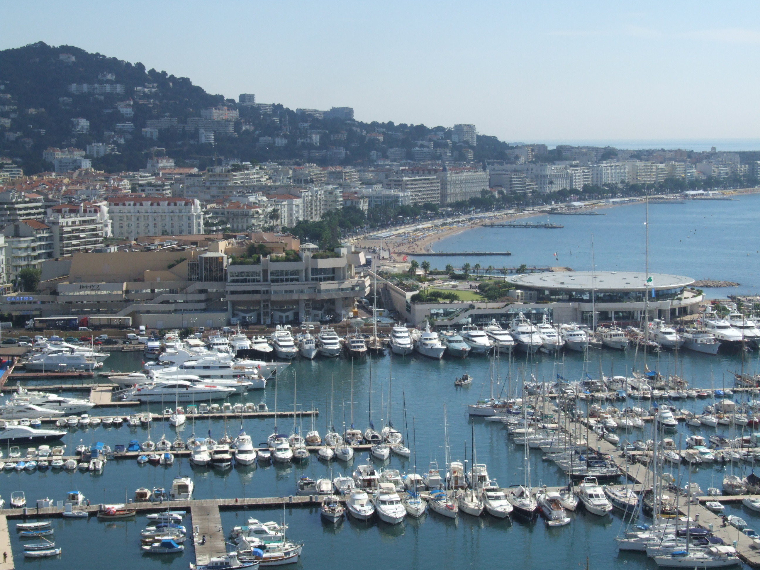 Cannes, FRANCE